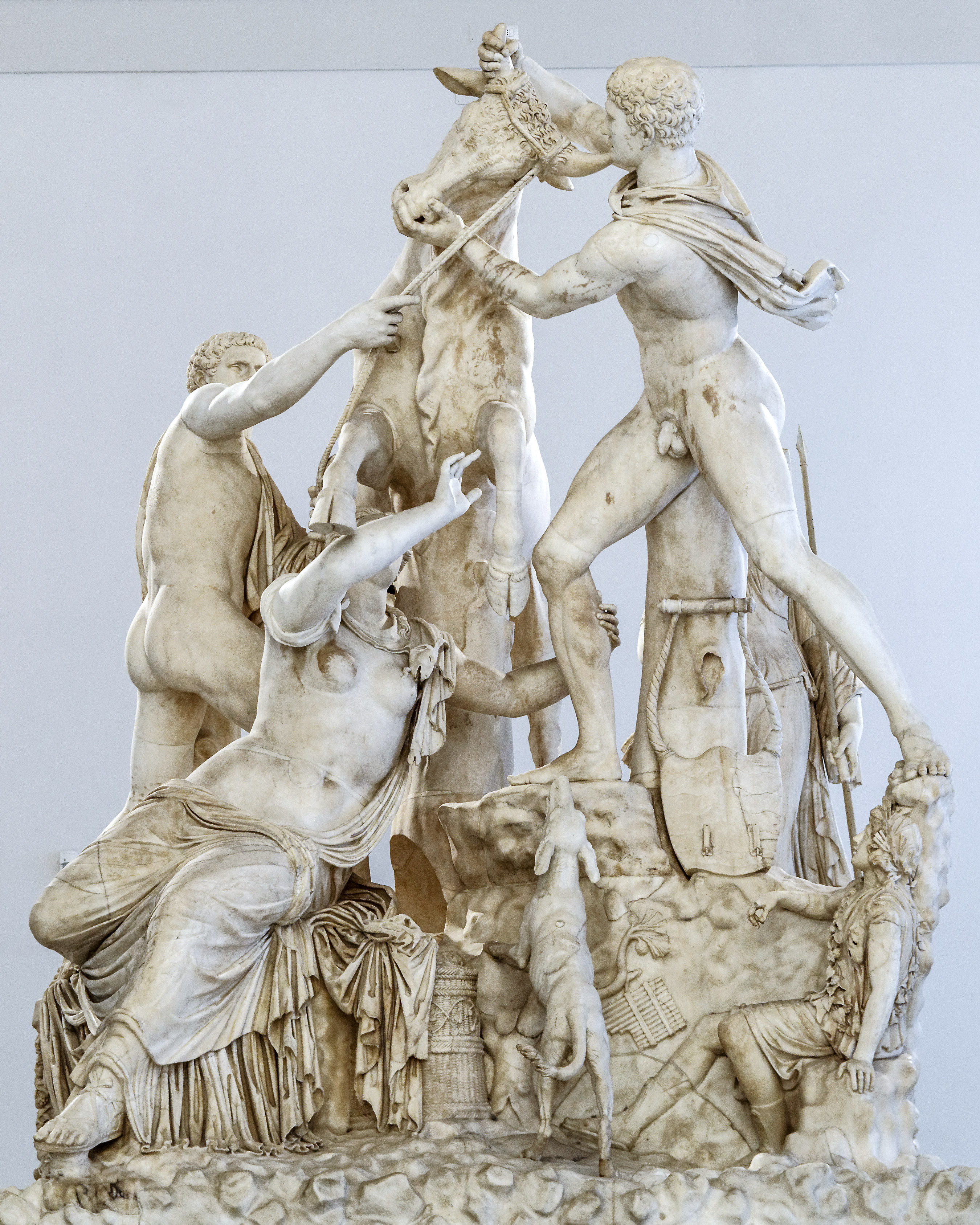 The death of Dirce. Roman copy of the Imperial era after a Greek original of the Early Hellenistic era.